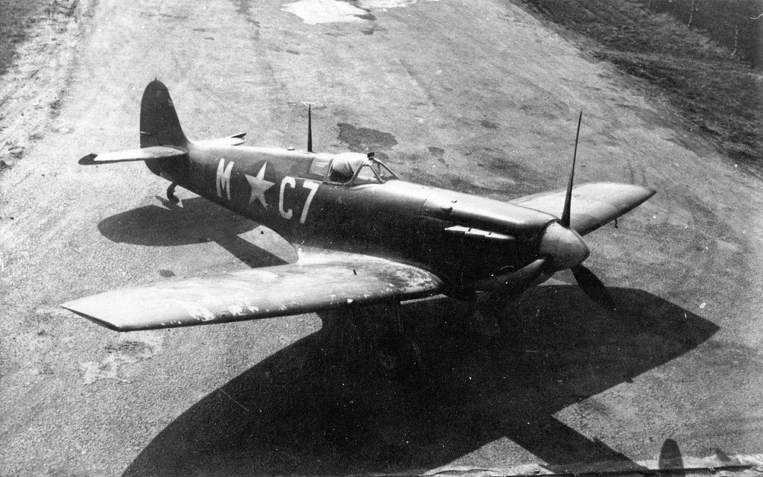 A Spitfire Mk. Va (C7-M, serial number W3815) of the 555th Fighter Training Squadron, 496th Fighter Training Group at Goxhill, 1944. Handwritten caption on reverse: 'Goxhill - '44 - VAS Sptifire Va - W3815 - 496th Fighter Group USAF.' On reverse: P.H.T. Green Collection [Stamp].